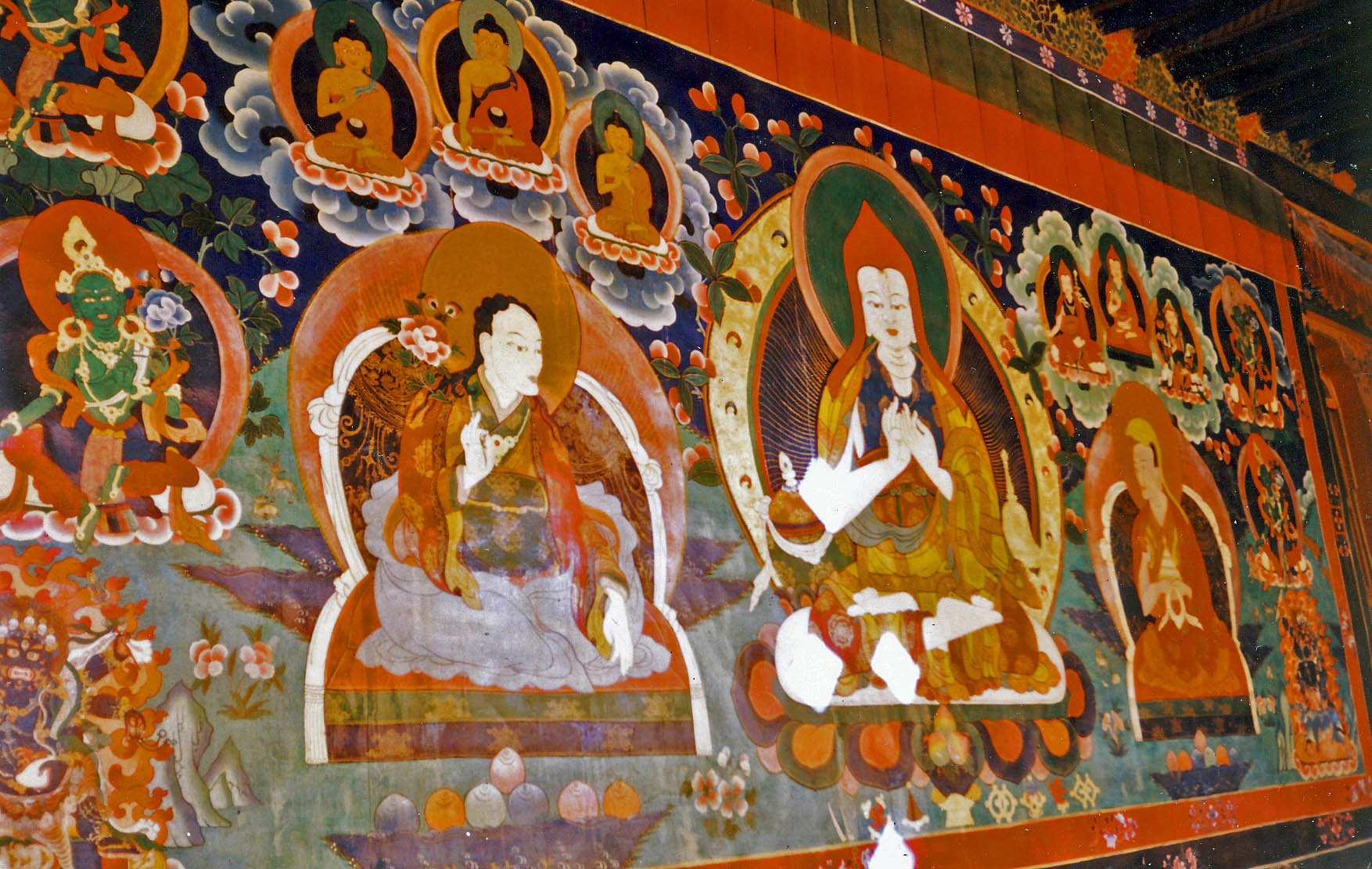 I have previously uploaded this image and labelled it: "Mural of Tsongkhapa at Ralung Gompa". Another editor, User:G.MENINI 83 has pointed out that the image is really of Tsongkapa's mentor, Atisha. I have checked this and it is right so Iam trying to chang this file to "Mural of Atisha at Ralung Gompa." I hope I am doing it correctly. Cheers, John E. Hill (talk) 02:53, 6 November 2009 (UTC)